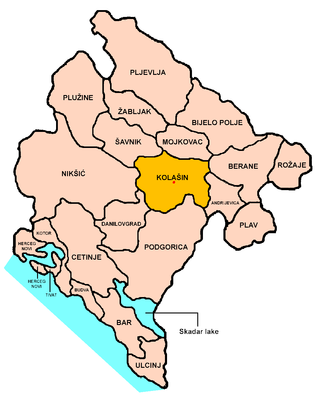 Location of Kolašin town and municipality within Montenegro